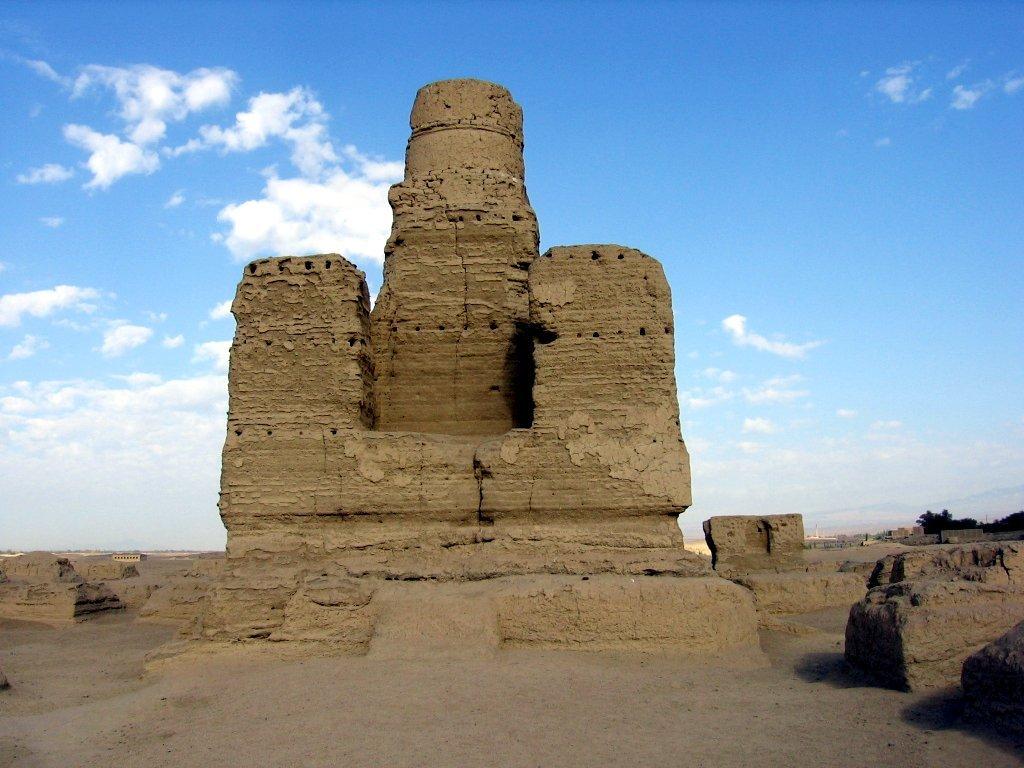 Turfan (Turpan/Tulufan) is an oasis city in the Xinjiang Uygur Autonomous Region of the People's Republic of China. Jiaohe ruins.